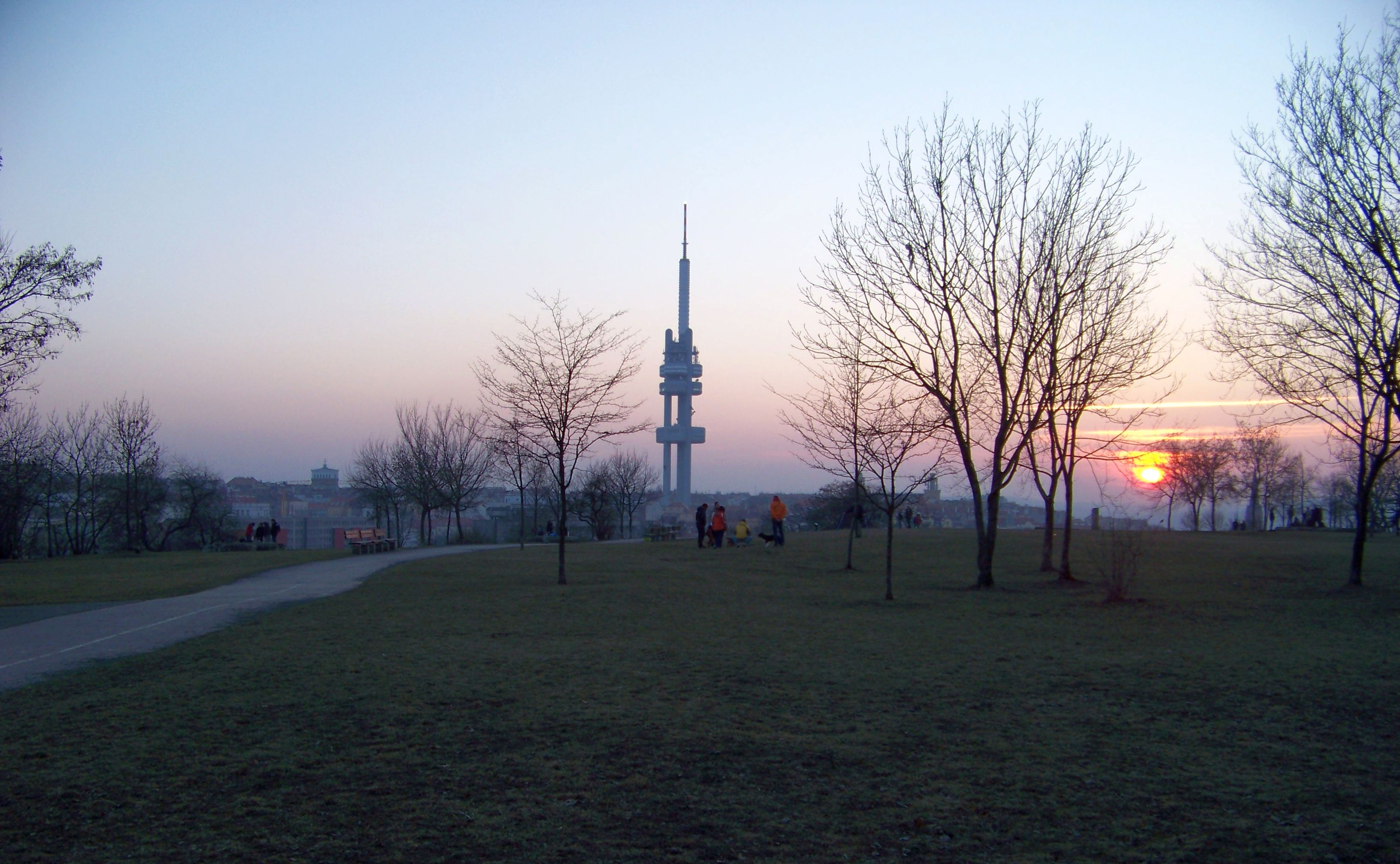 Prague-Žižkov, the Czech Republic. Parukářka park, a view of Žižkov Television Tower.